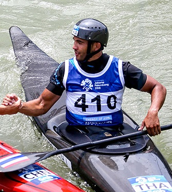 Canoeing at the 2018 Asian Games, men's K-1 slalom